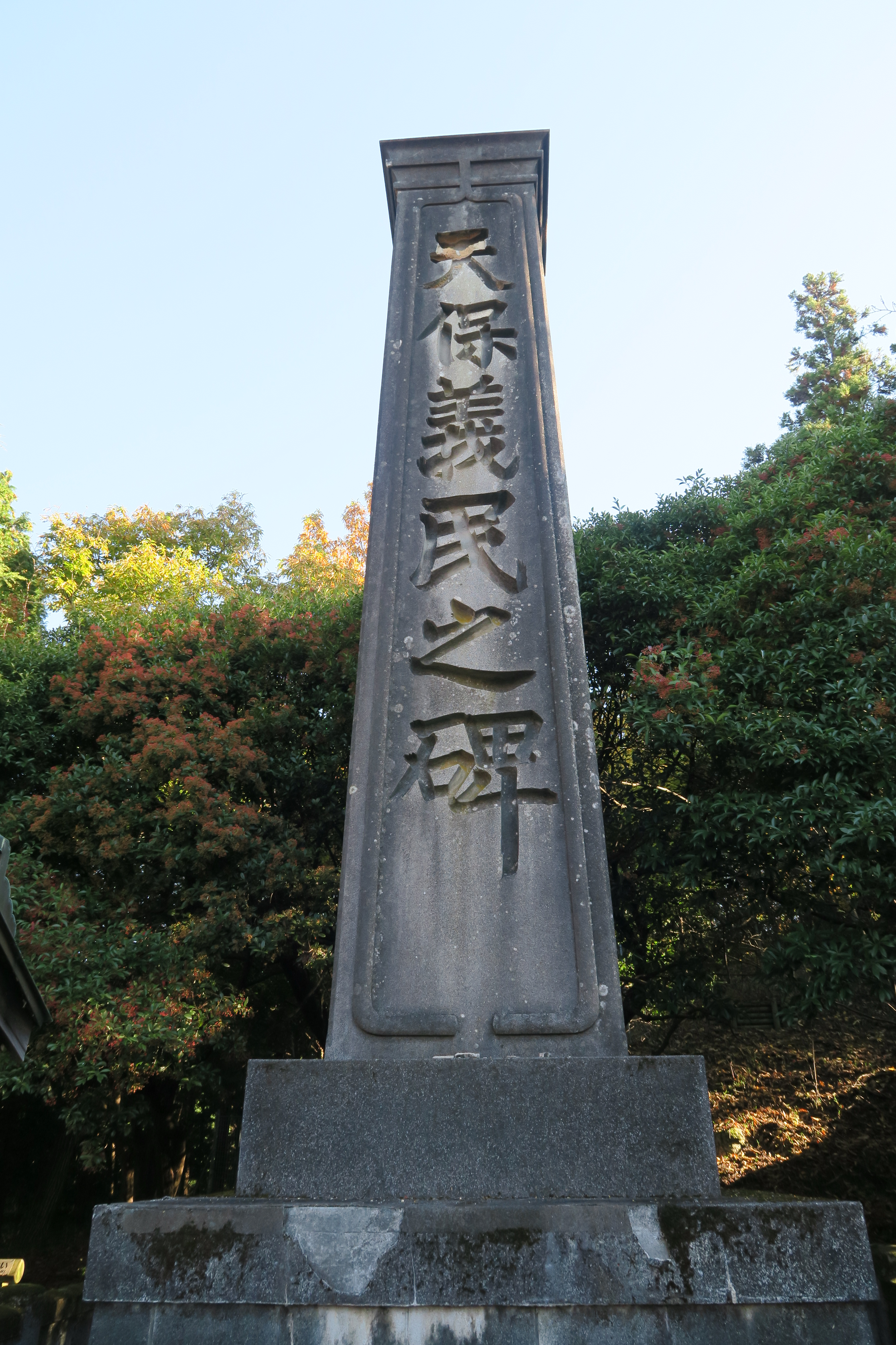 Tenpō Gimin Monument, Konan, Shiga, Japan built in 1898.